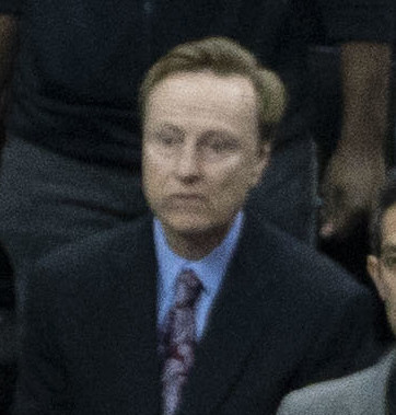 Raptors at Wizards 4/20/18